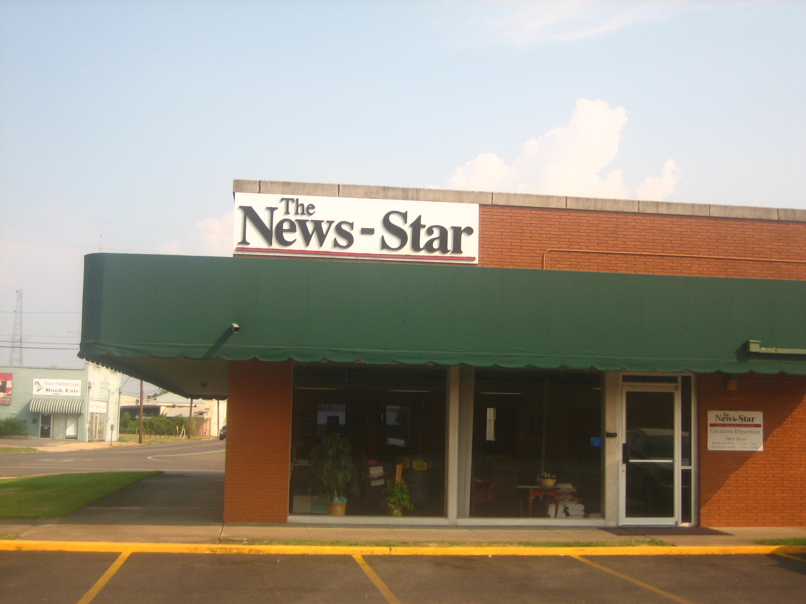 I took photo on Aug. 2, 2008.Billy Hathorn (talk) 22:07, 13 August 2008 (UTC)